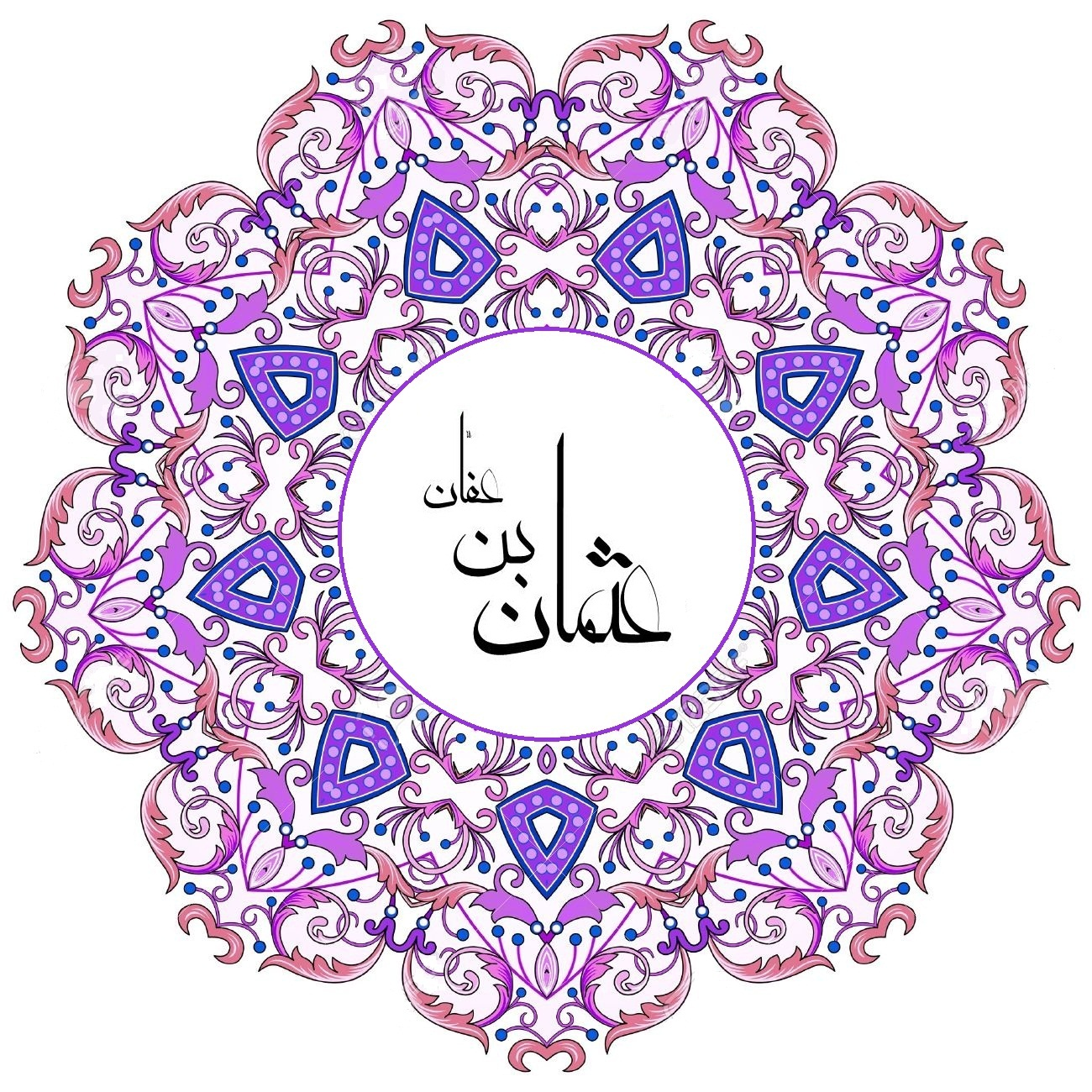 Uthman